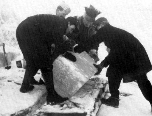 The ice for the ice block expedition of 1959 is collected at Svartisen